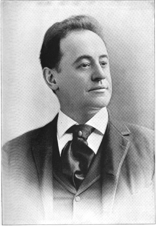 Photograph of American comic actor Harry Conor appearing on page 101 of the July 29, 1893 issue of The Illustrated American.